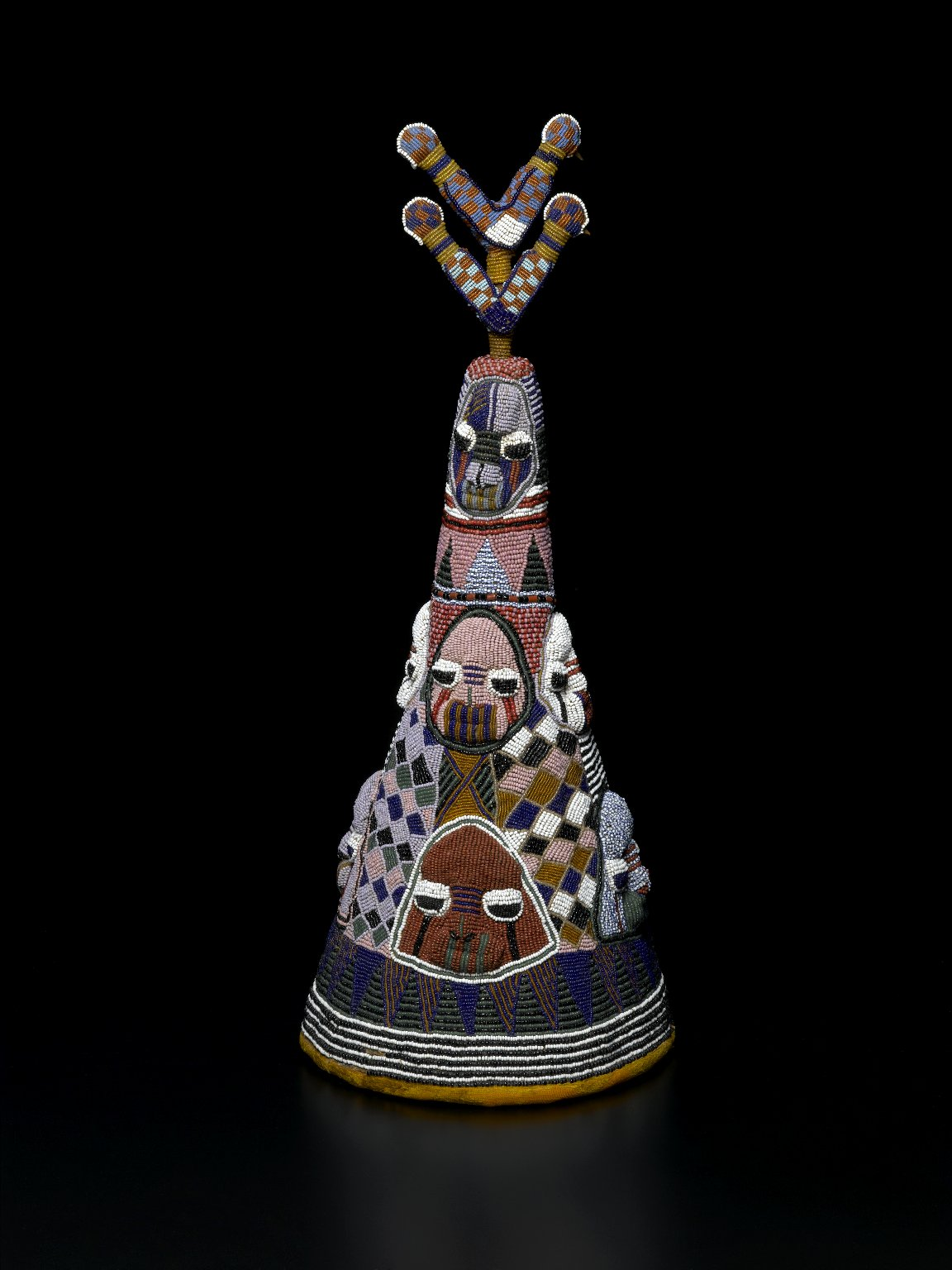 Conical basketry frame covered by a stiffened cloth base which is embroidered with glass beads: white, blue, green, pink, red-orange, ochre, and violet. Its relief decoration is also beaded. The top of the crown is surrmounted by four abstract birds. The top tier of the headdress is decorated with two opposed frontal faces. The second and third tiers are each decorated with four frontal faces. The faces are spaced by panels containing geometric patterns. CONDITION: Good, but lacking flaps and two of the wooden bird beaks are missing.